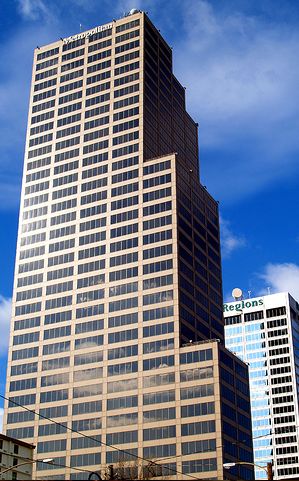 I took this photo and I'm letting anyone use this.